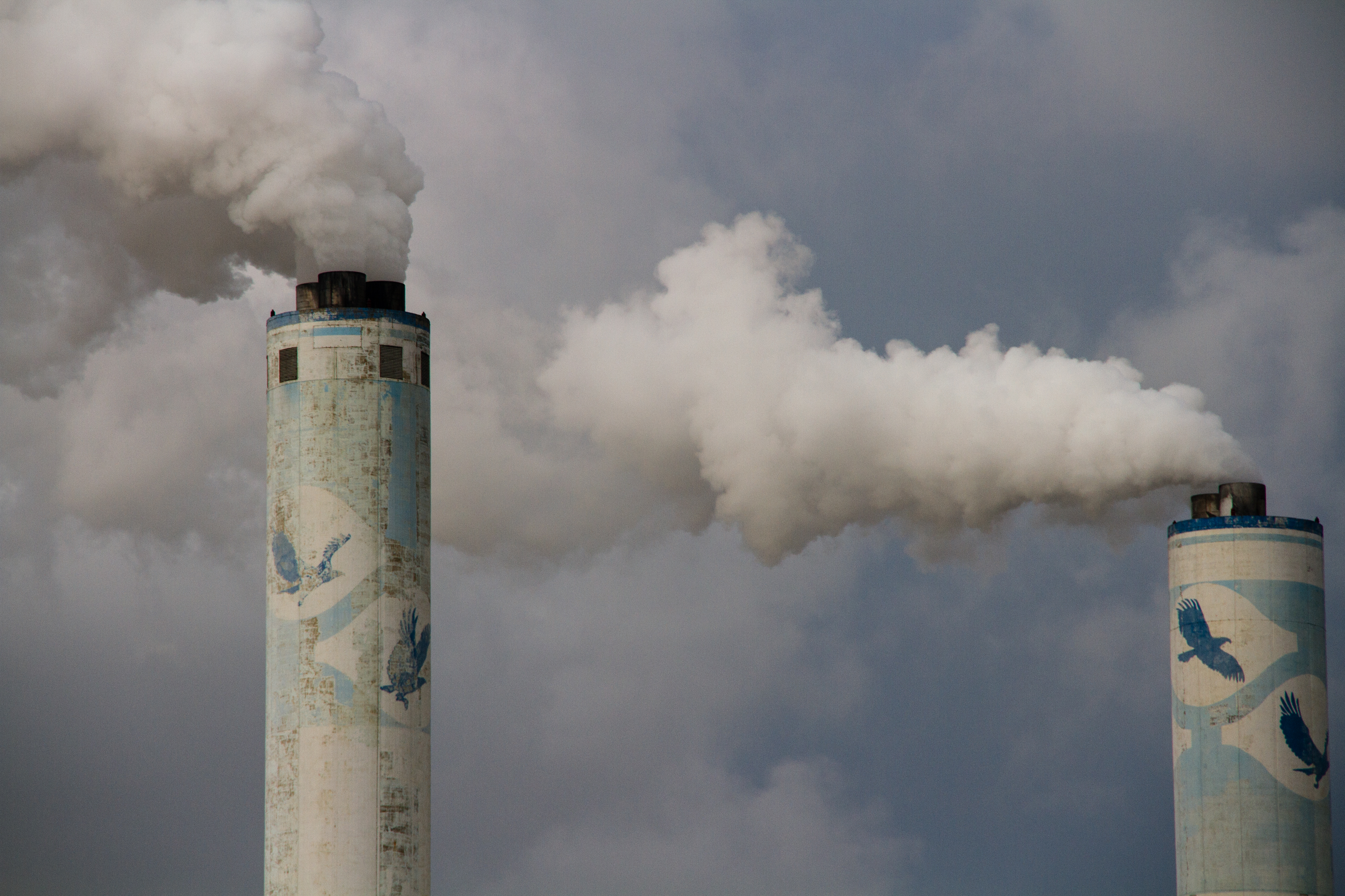 台塑六輕工業區 FPG's naphtha cracker